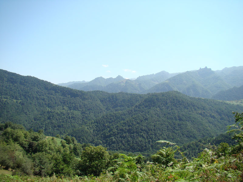 laton Waterfall